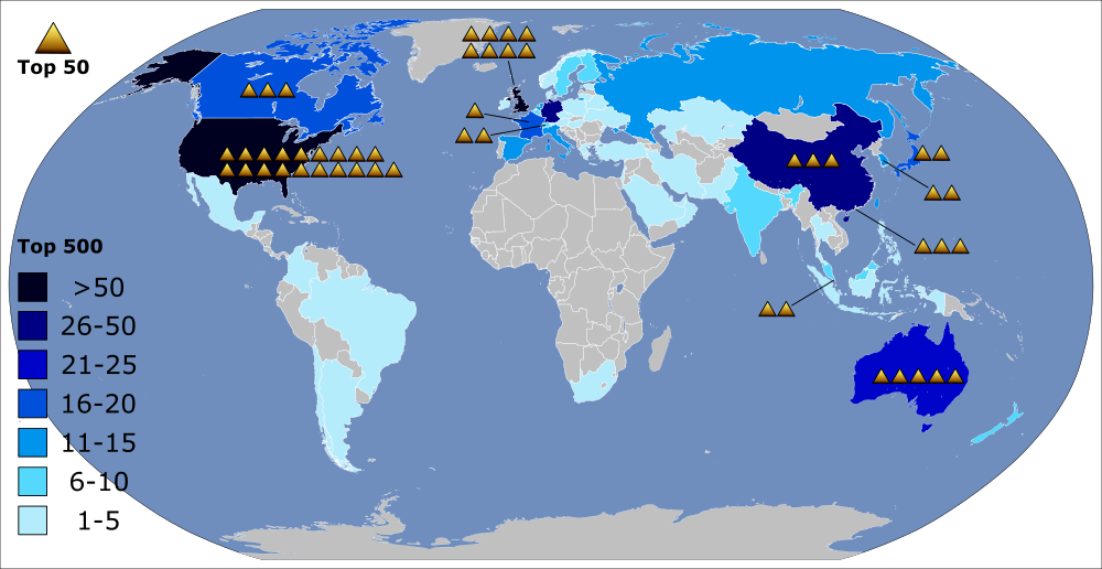 data